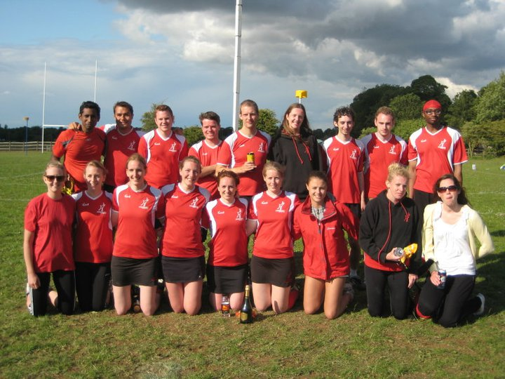 2011 tournament win